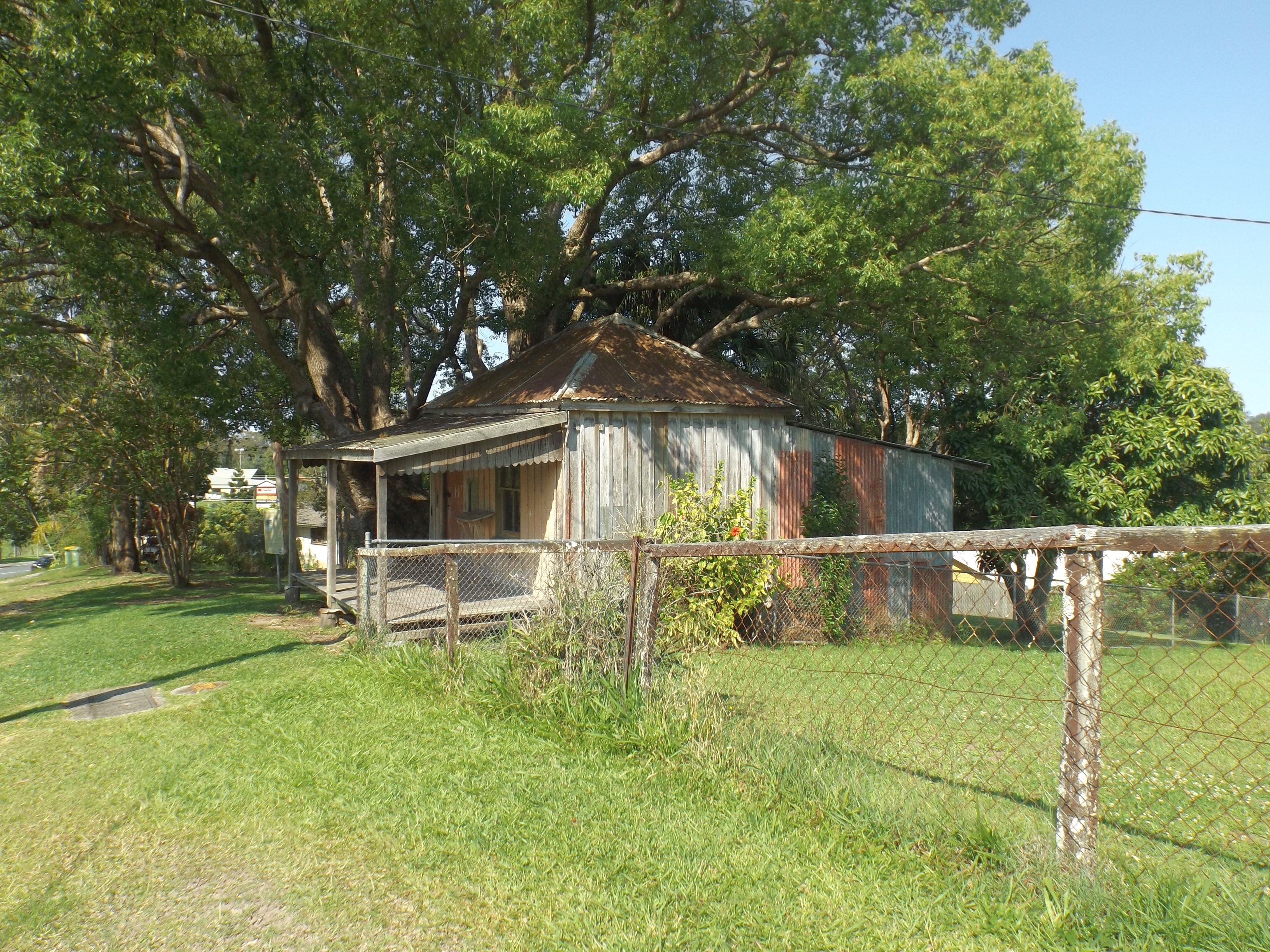 Photo of Tallebudgera Post Office at Tallebudgera, Gold Coast City, Queensland, Australia.